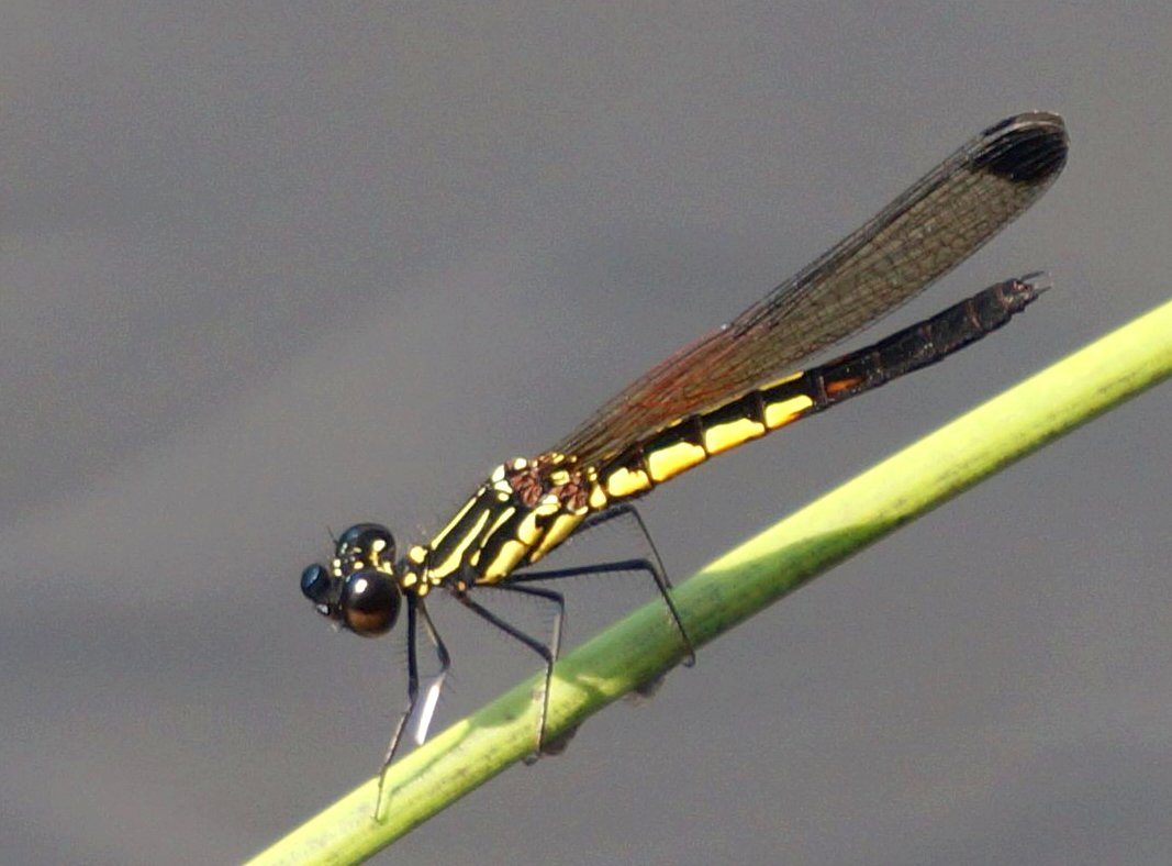 River Heliodor